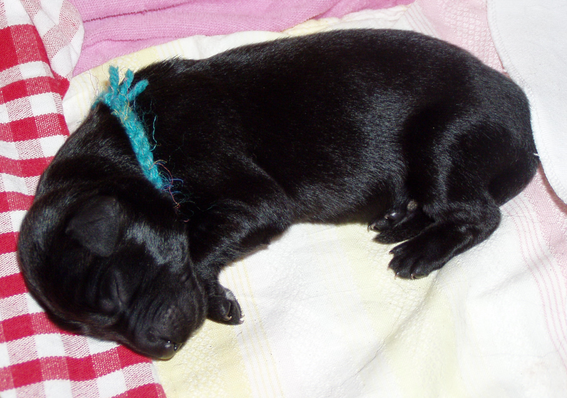 1 day old hovawart puppy